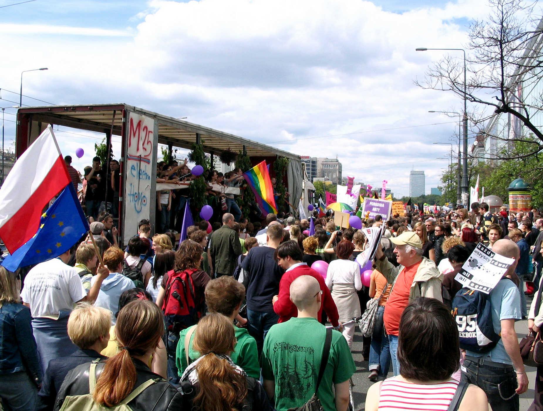 Parada Równości 2006 in Warsaw.